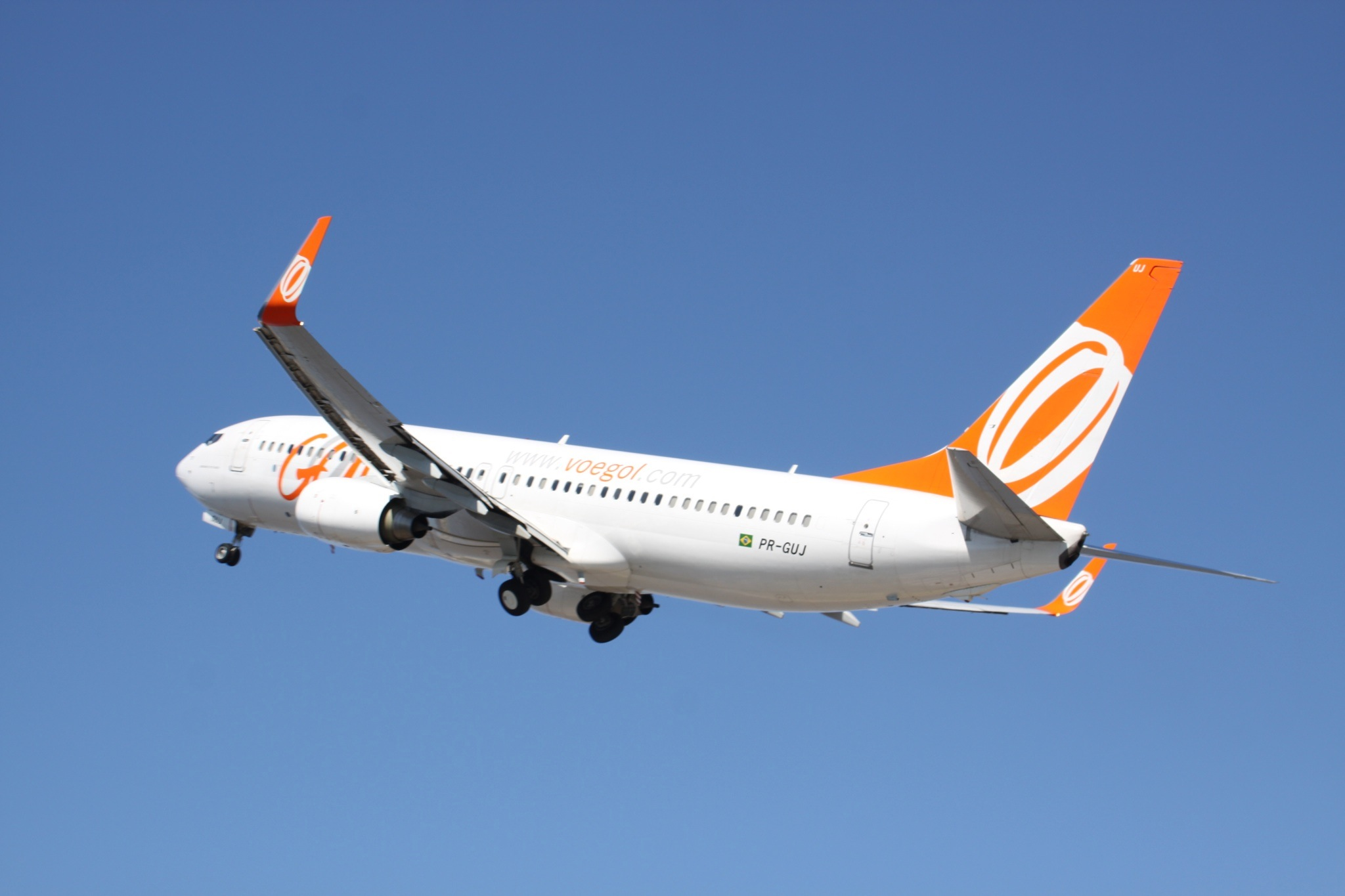 At Santos Dumont